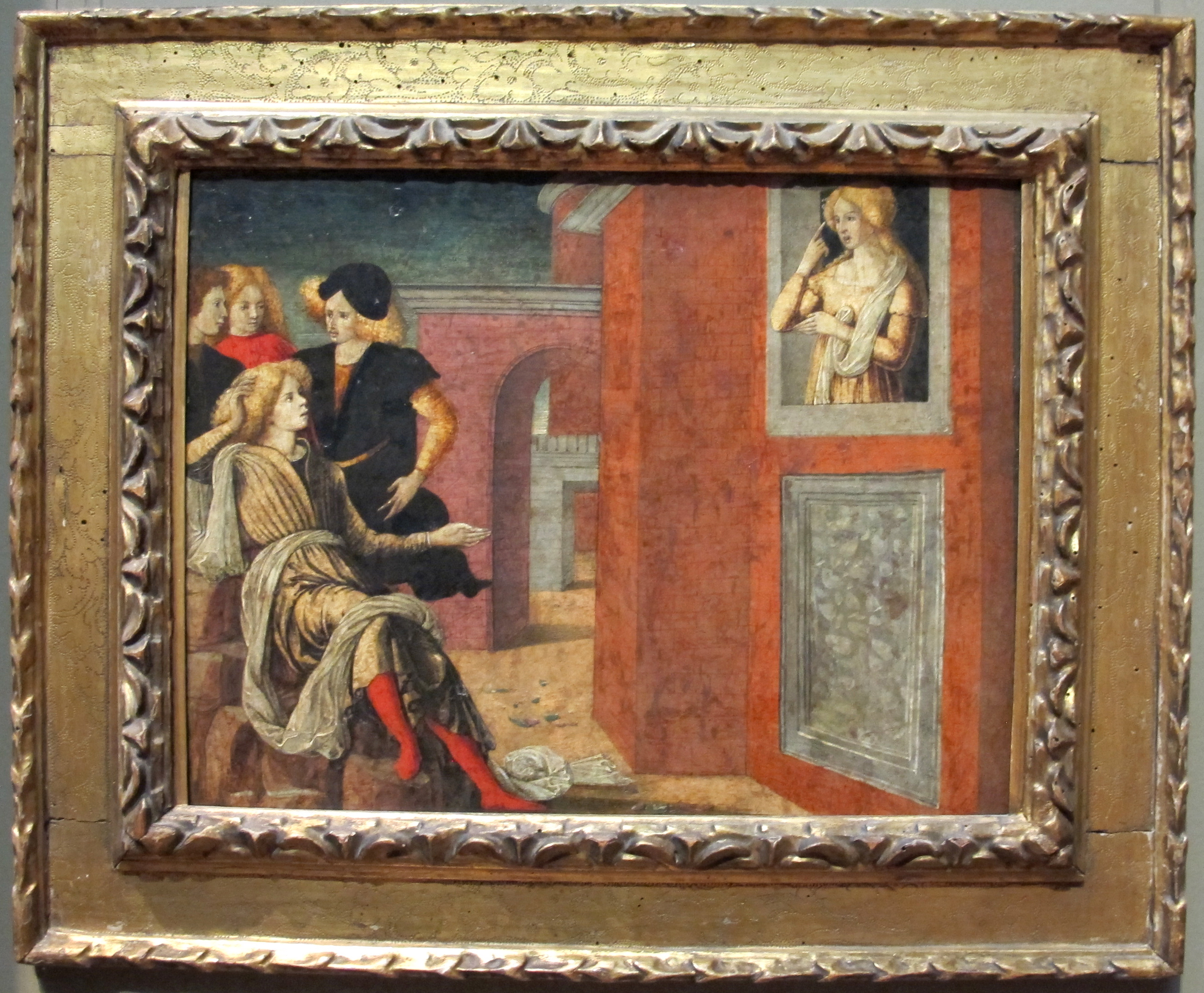 Paintings of the Italian Renaissance in the Metropolitan Museum of Art